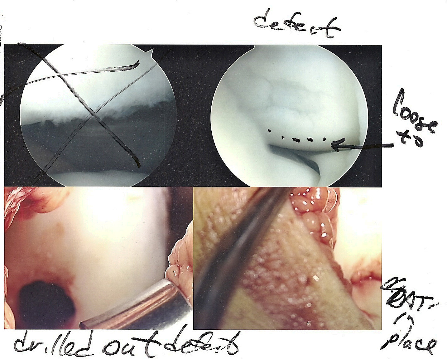 Arthroscopic pictures illustrating OATS procedure on femoral condyle of right knee after diagnosis and prior (failed) micro-fracture surgery. (Pictured clockwise from top left): Completely functional cartilage of the patella (with "X" indicating no surgery necessary), osteochondral defect (stage III), OATS plug in place (drill in foreground), drilled out defect.